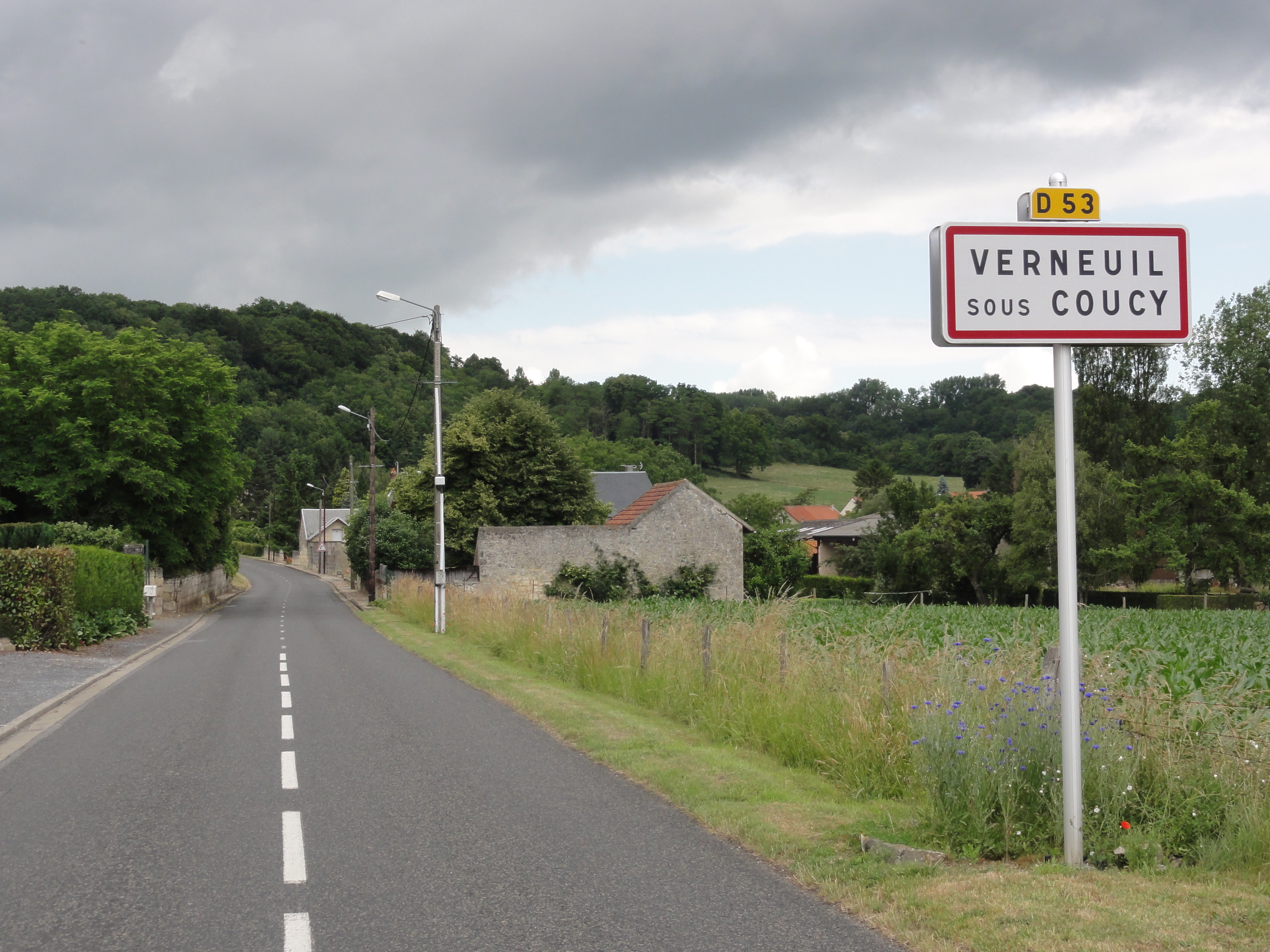 Verneuil-sous-Coucy (Aisne) city limit sign